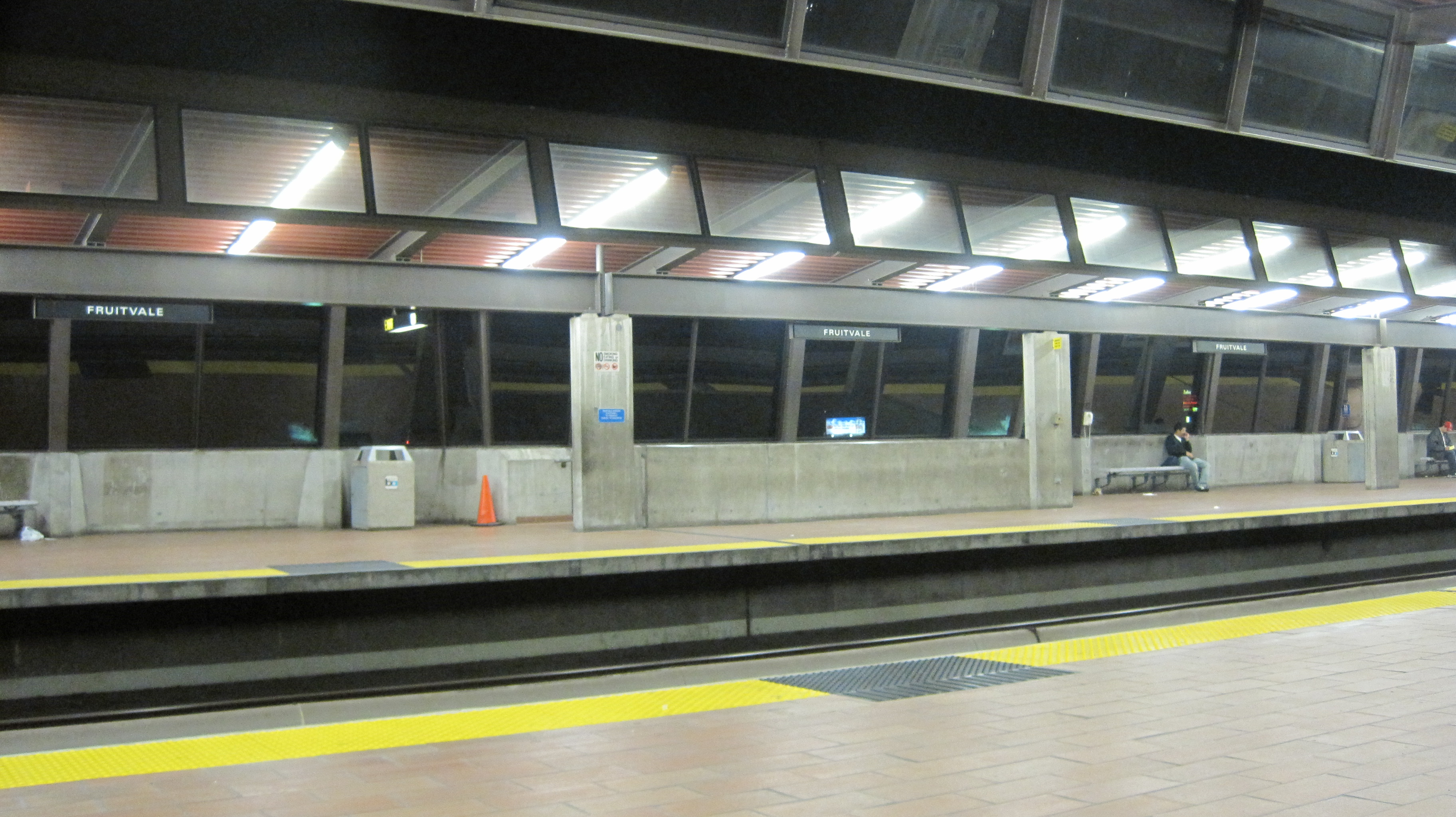 The Fruitvale BART station platform.